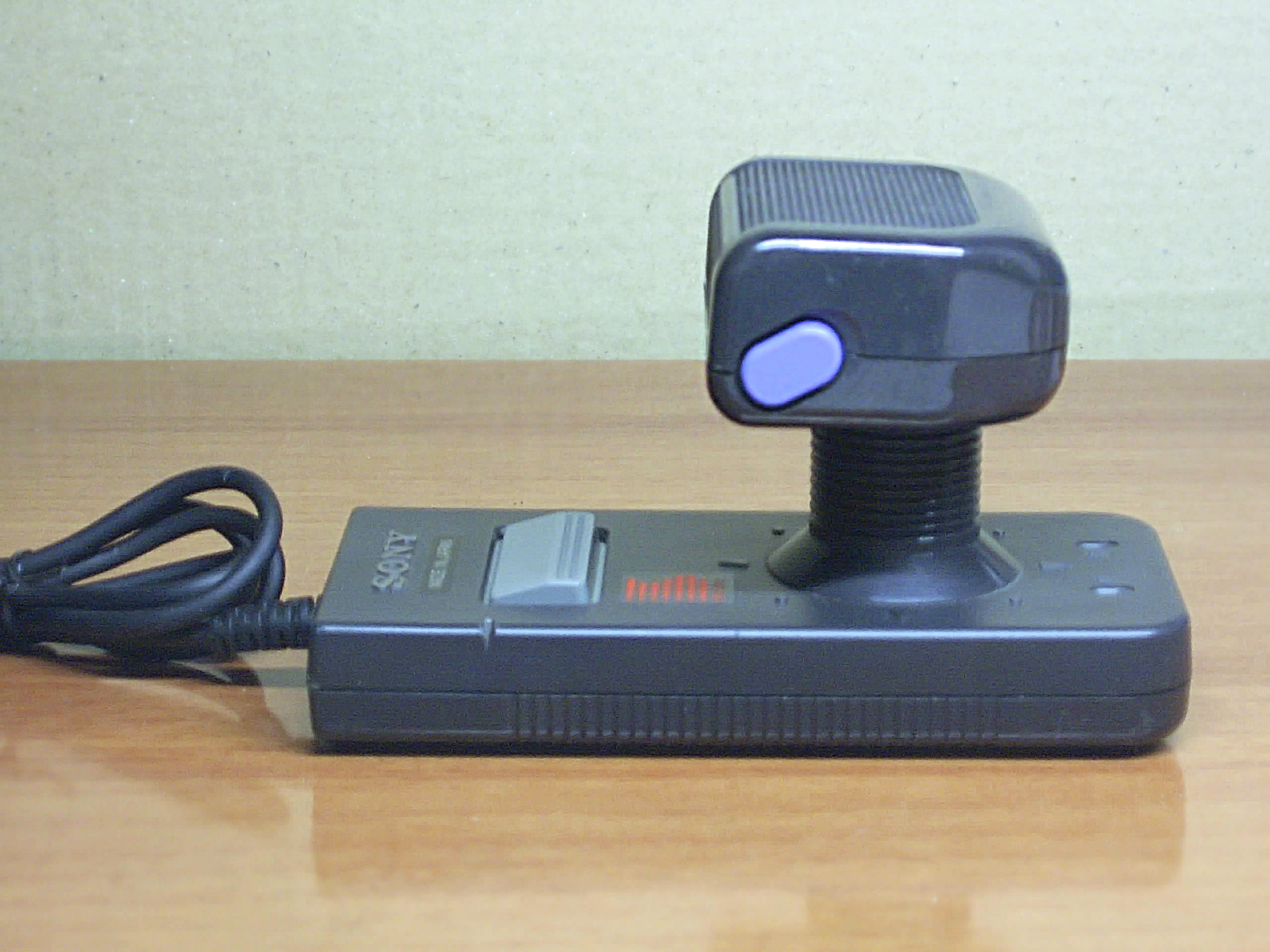 Joystick Sony JS-55 MSX lateral izquierdo